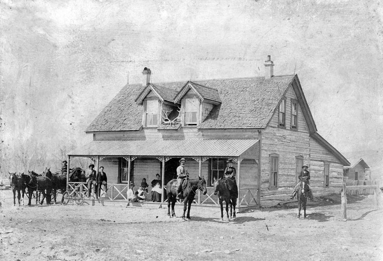 1890 Copy 1 24.8 x 19.7 cm. Copy 2 12.7 x 10.2 cm. 2 Black and white photographs. Urch Family and friends posed in front of the Urch Ranch Home (also known as the Half-Way House) near Monarch. Mrs. Urch is sitting on the verandah holding her infant daughter, Nettie. Dick is on the tricycle and Jean is next to her father, Richard Urch. Mr. and Mrs. H. G. Long are on the horses in front and Jimmy Burgoyne is on the pony to their right. Jimmy's father is in the horse drawn wagon on the far left. The 2 men sitting on the railing are unidentified. See attached for information about the family and Half-Way House. To obtain high quality and larger reproductions of this image please visit the Galt Museum & Archives website: and include thIs number in your request: P19770227000